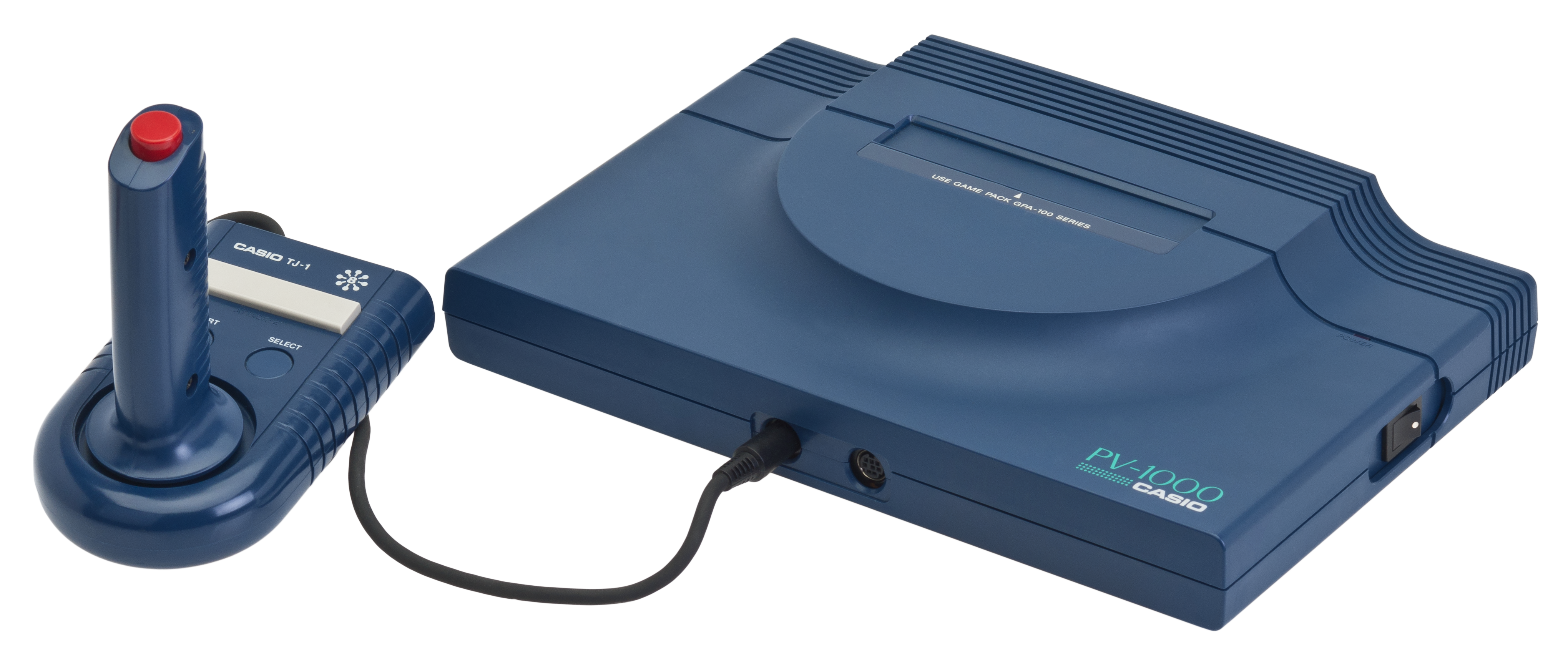 The Casio PV-1000 and controller. A video game console only released in Japan in 1983.